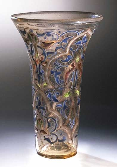 The Luck of Edenhall, 13th century V&A Museum no. C.1 to B-1959 Techniques - Glass, gilded and enamelled Place - Syria/Egypt Dimensions Height 15.8 cm, Width 11.1 cm (maximum)